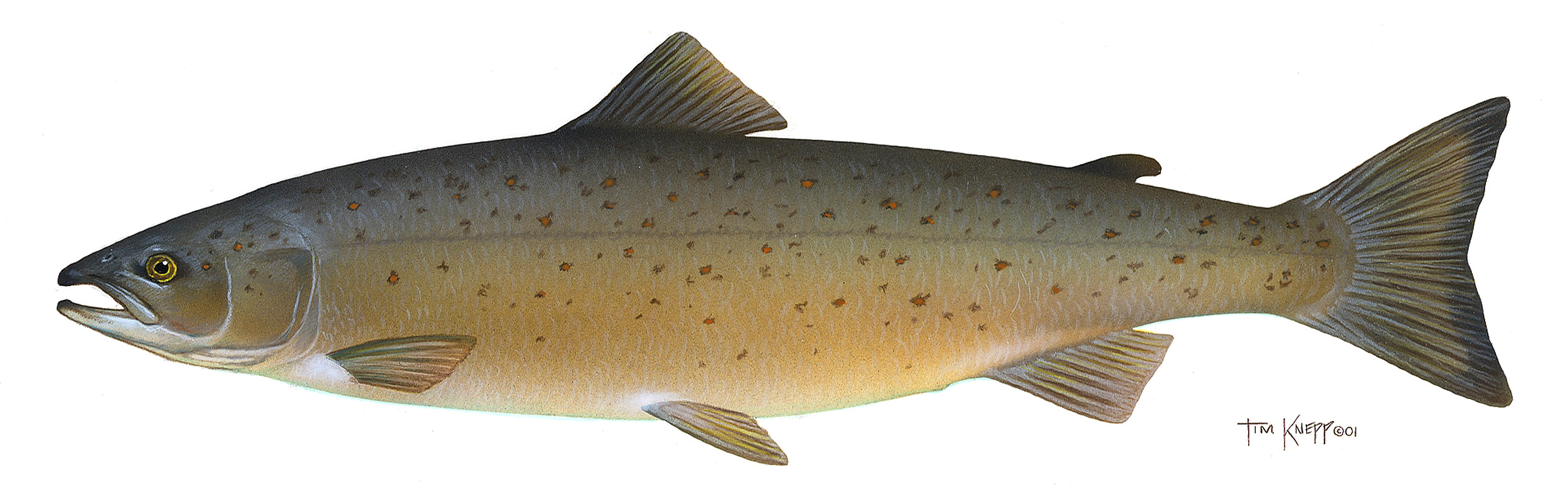 Salmo salar, Atlantic Salmon, Salmoniformes, Salmonidae, Salmoninae, salmon, fish / (crop, levels)